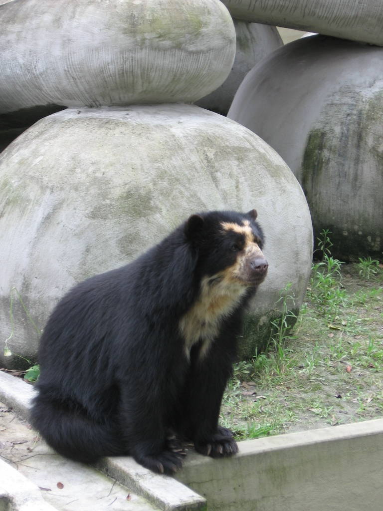 Tremarctos ornatus at Rio de Janeiro Zoo, Brazil.